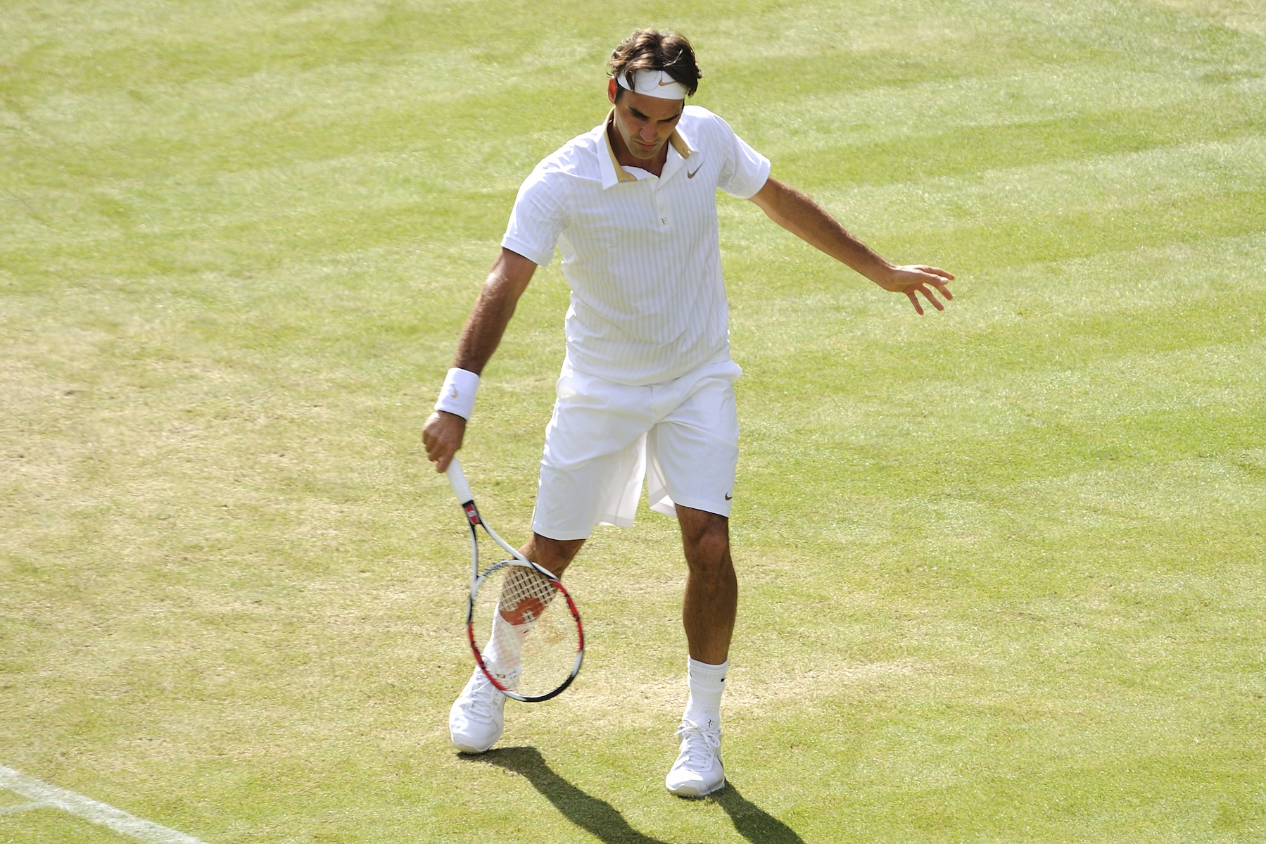 Roger Federer against Guillermo García-López in the 2009 Wimbledon Championships second round